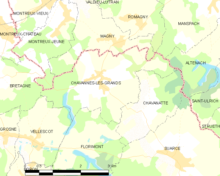 Map of French municipality Chavannes-les-Grands